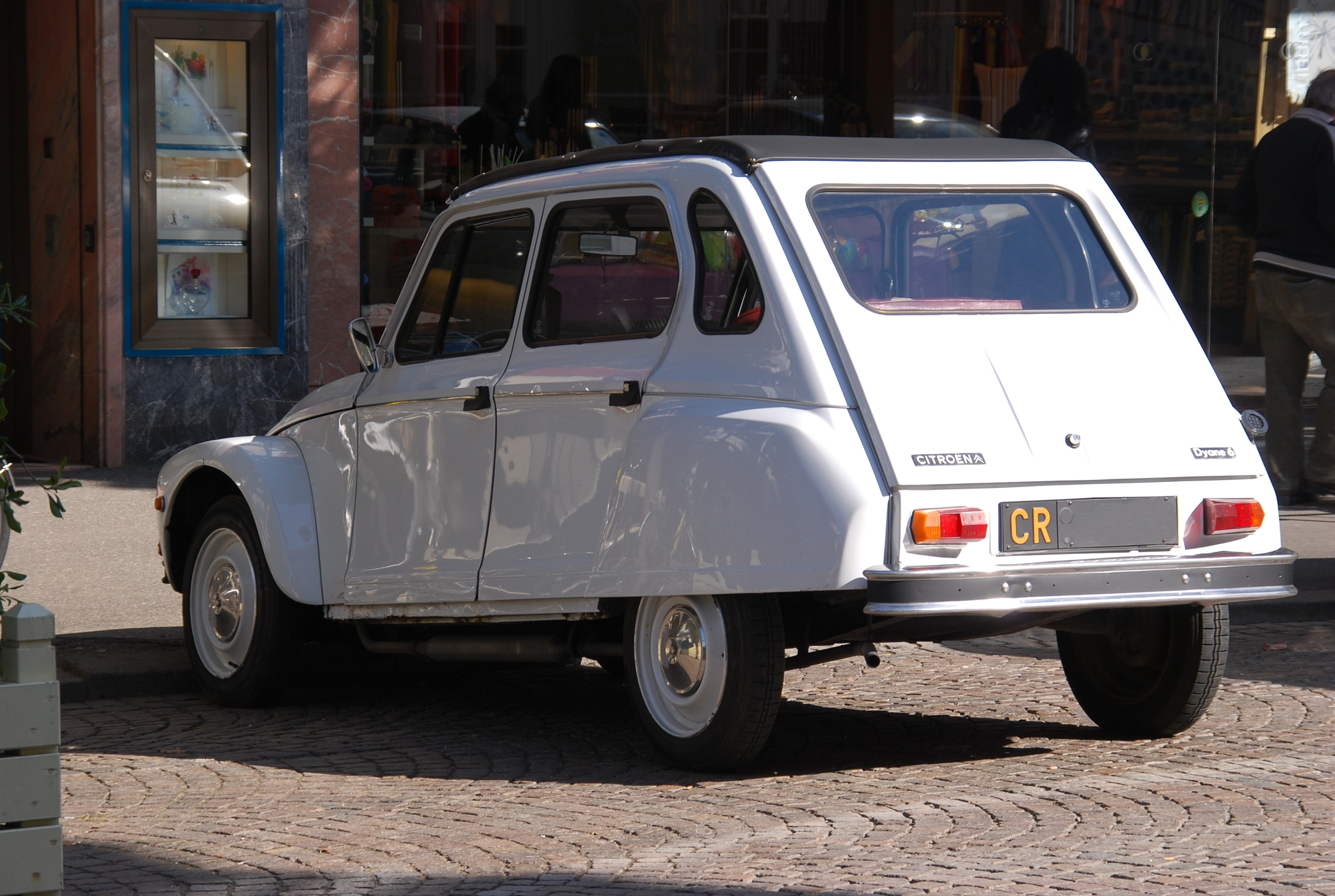 Citroen Dyane.